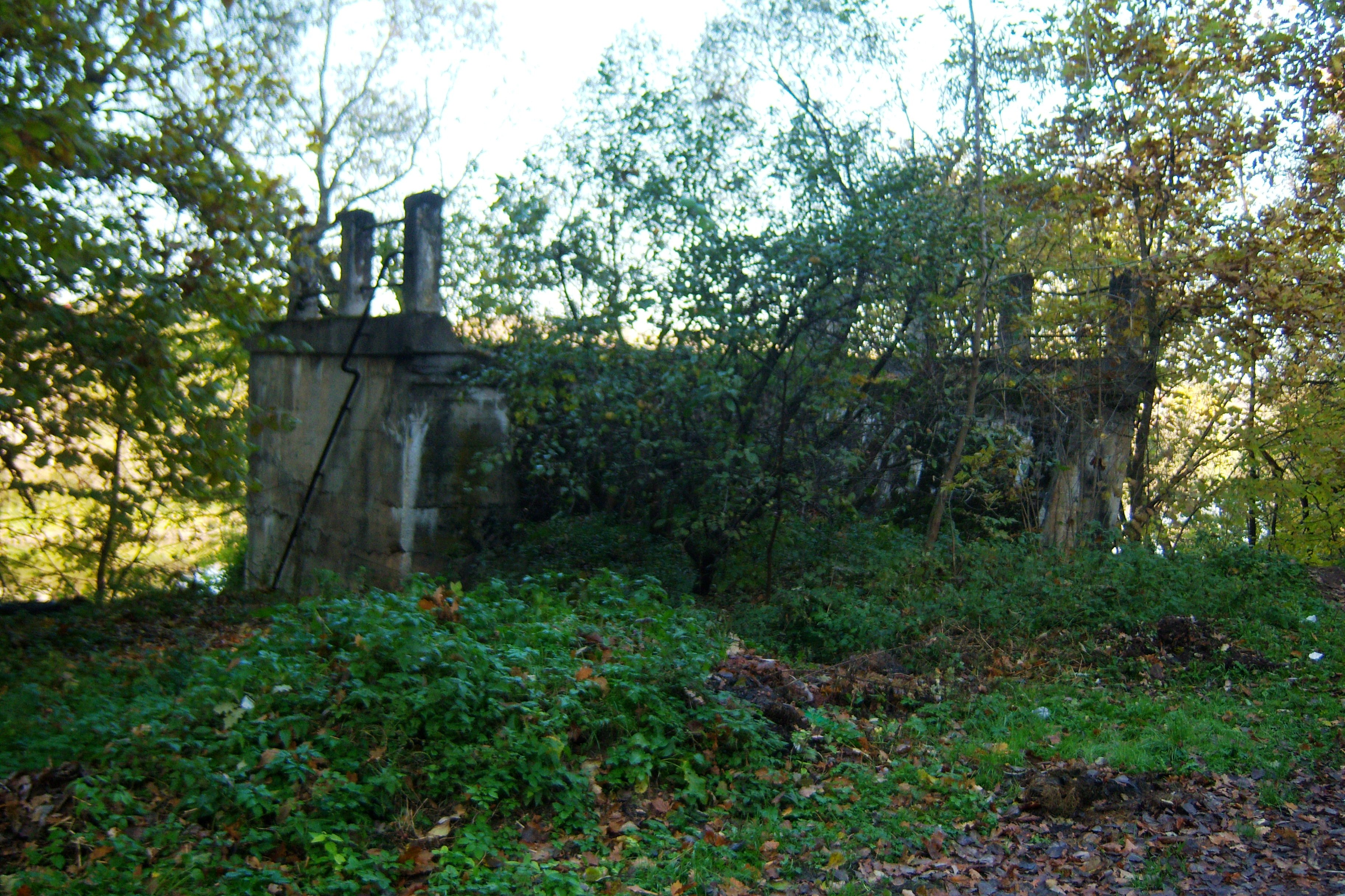 Ruins of the old Raudondvaris Bridge over Nevėžis River (left bank), Kaunas, Lithuania